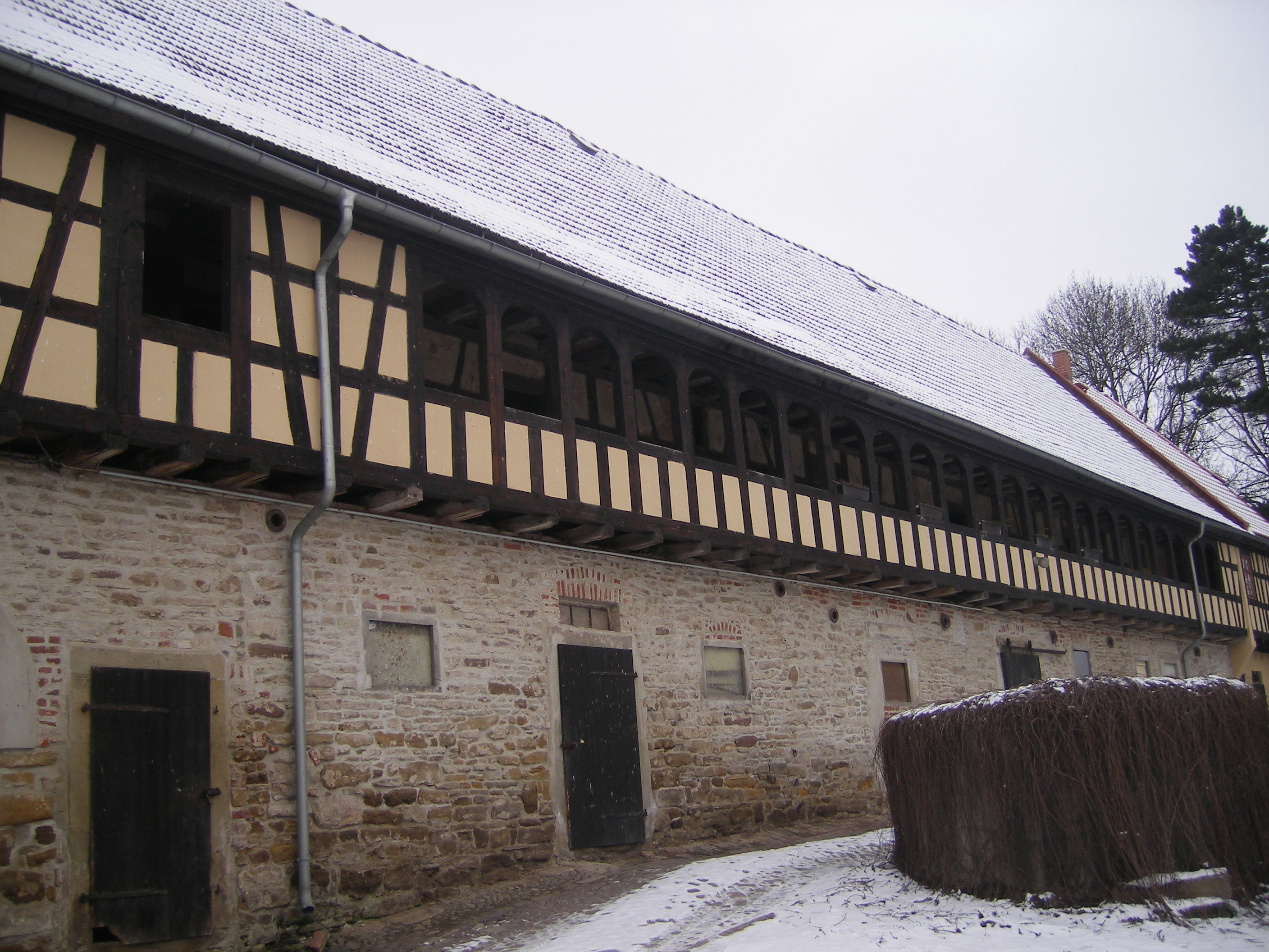 Longest balcony, sometimes called a lauben, logia or arcade, of a manor house in Schwanditz near Altenburg/Thuringia, Germany